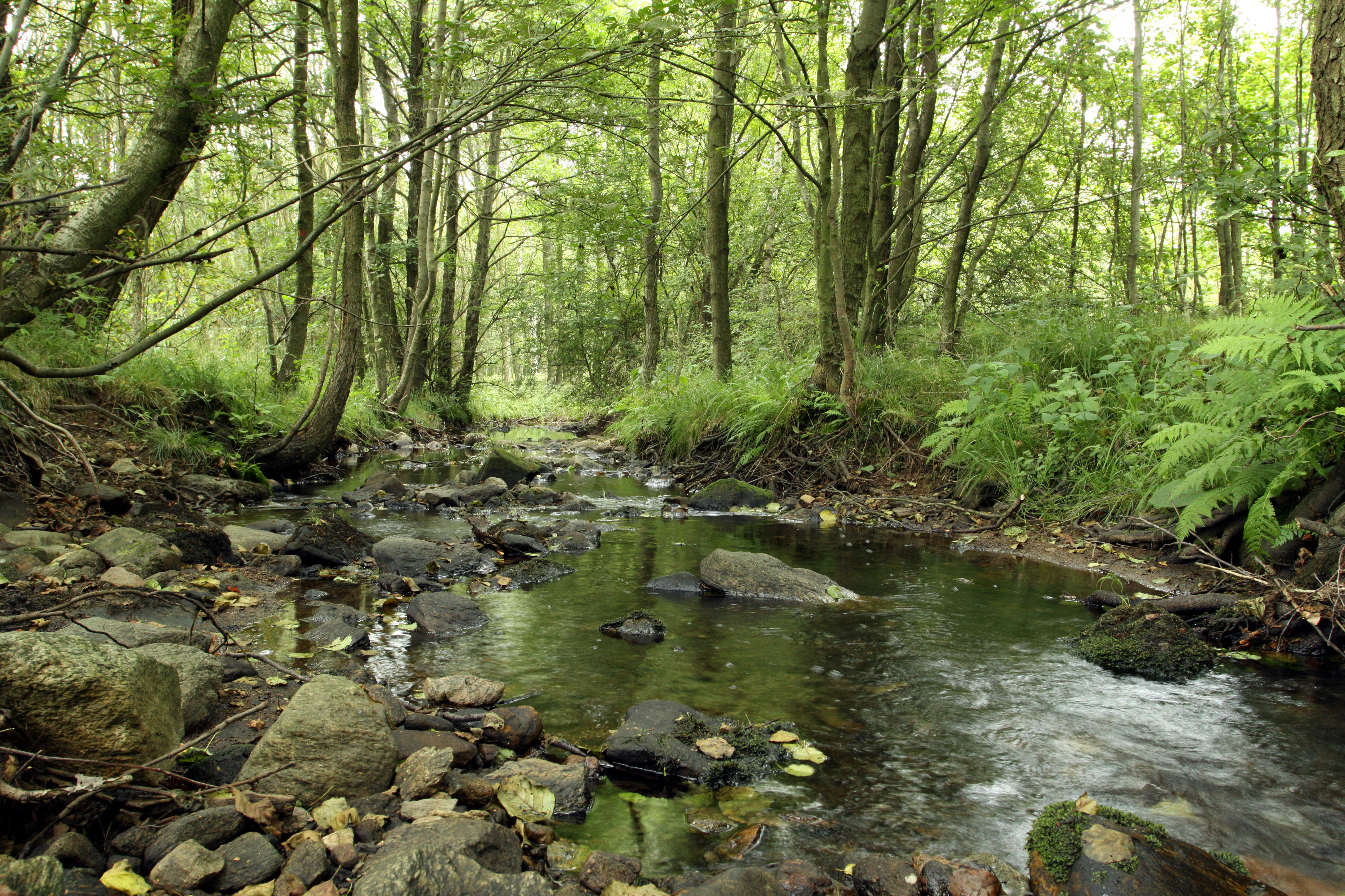 Nature reserve Niva Olšového potoka close to Petrovice village in Ústí nad Labem District, Czech Republic